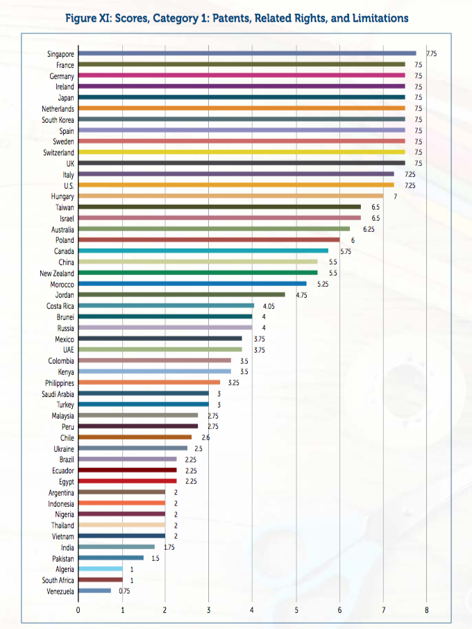 Recreation of the Global Intellectual Property Centre rankings (including same colors and layout) for 2018, for the Patents sub-category (i.e. this is not the main overall ranking)